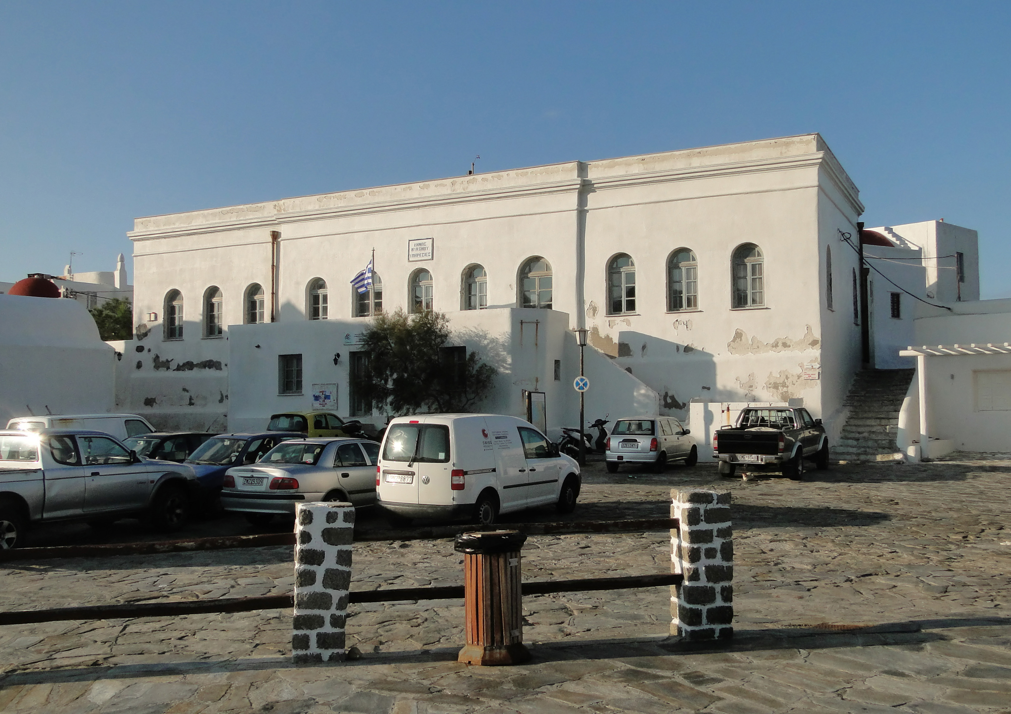 Town Hall of Mykonos Town (Chora), Mykonos, Greece